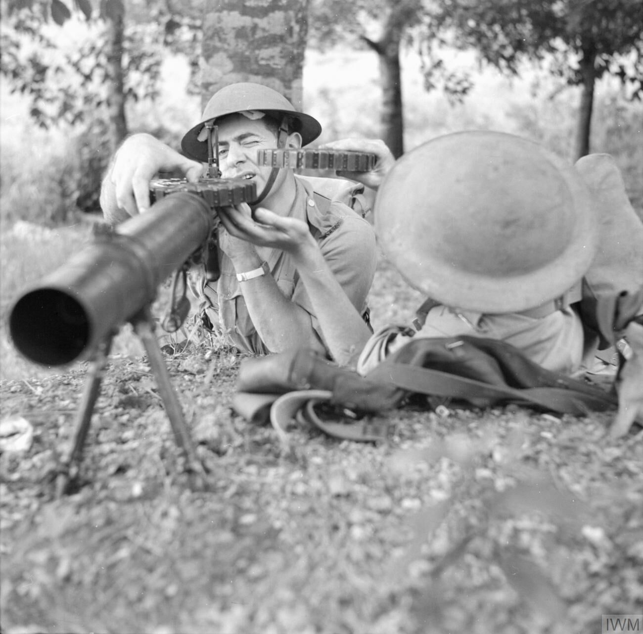 Sourced from: [1] Collection No.: 4700-50, Recruits of the Singapore Volunteer Force training with a Lewis gun, November 1941.